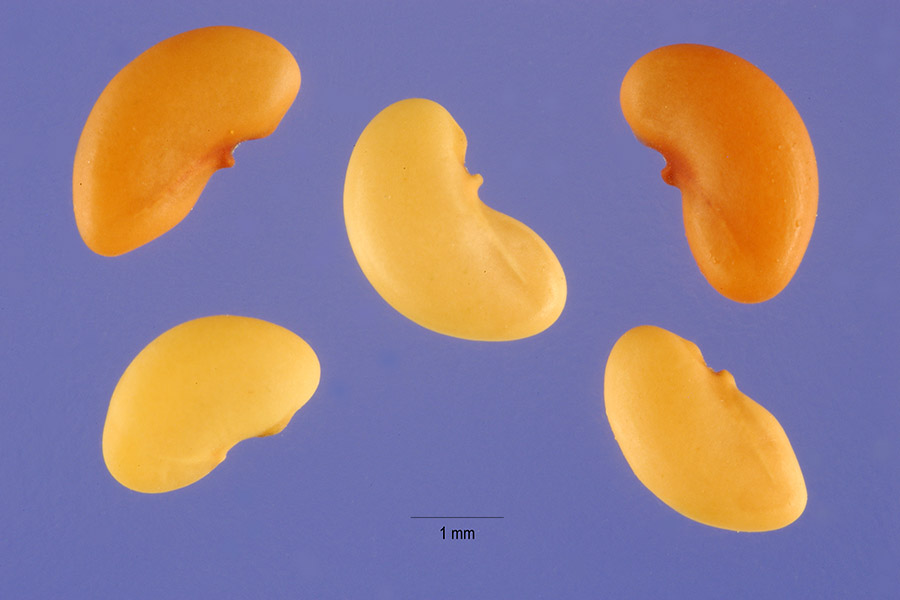 Photograph of Medicago arabica seeds.